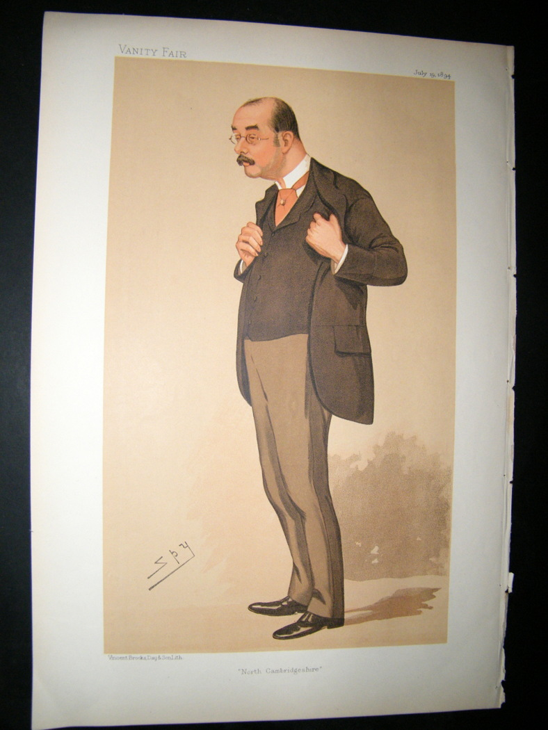 Statesmen No.638: Caricature of The Rt Hon AG Brand MP. Caption reads: "North Cambridgeshire"